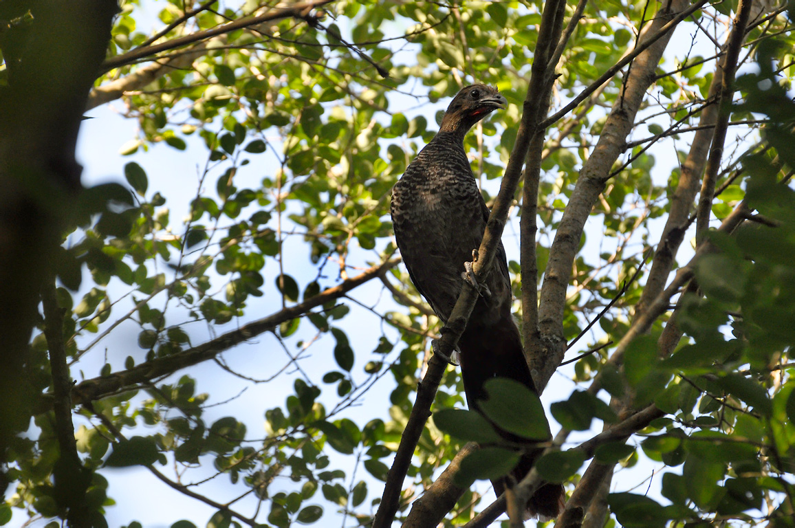 A Scaled Chachalaca Ortalis squamata in Pelotas, Rio Grande do Sul, Brazil.